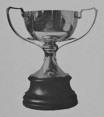 The trophy given to "Copa Dr. Carlos Ibarguren" winning teams. Established in 1913, it lasted until 1925.